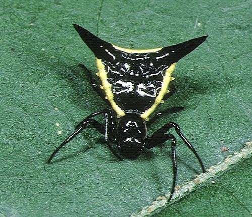 Micrathena pungens from Ecuador.